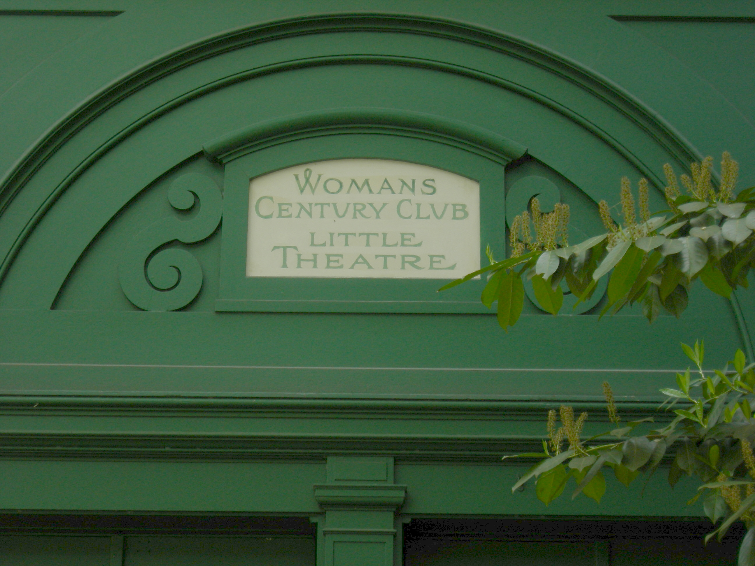 The Harvard Exit Theatre in the Capitol Hill neighborhood of Seattle, Washington, still bears the emblem of the Woman's Century Club, which constructed the building in 1925 to serve as its clubhouse. This sign is over the rear exit on Harvard Avenue E. The Harvard-Belmont Landmark District is part of the Capitol Hill neighborhood of Seattle.